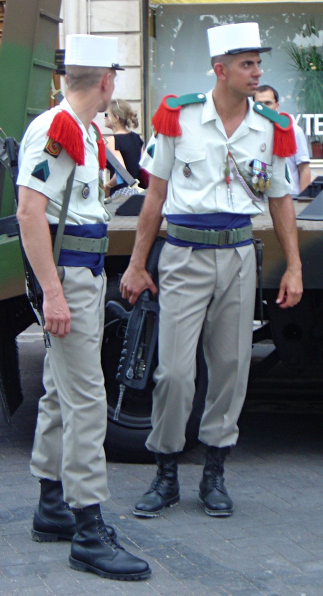 French Foreign Legionnaires coming back from a Bastille day military parade